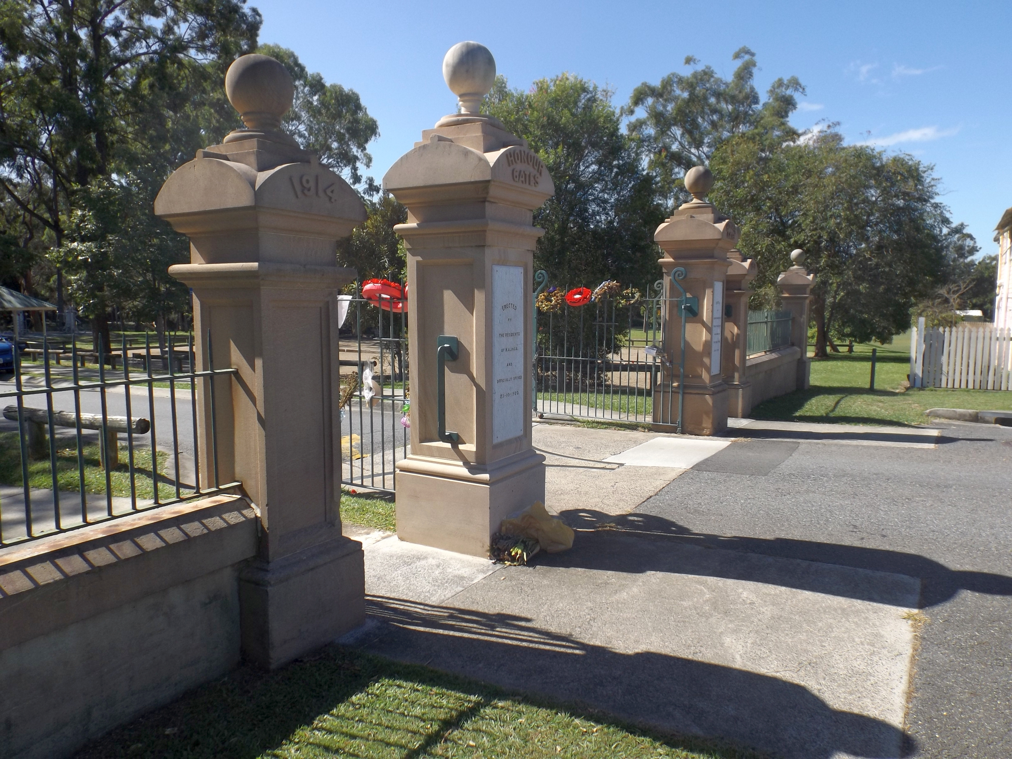 Photo of memorial gates at Kalinga Park in Wooloowin, Brisbane, Queensland, Australia.